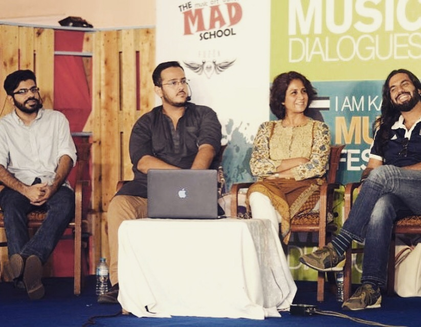 Taha Malik giving a talk on film and music, alongside Azaan Sami, Ayla Raza, and Babar Sheikh in Karachi.